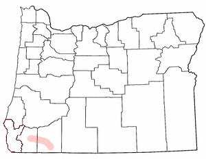 Rogue Valley adapted from Wikipedia county maps by Matthew Trump, 2004 The outline of Curry County is still visible (bits of red.) The image should be cleaned up to clarify that the shaded region in Jackson and Josephine Counties is what's intended to be highlighted.